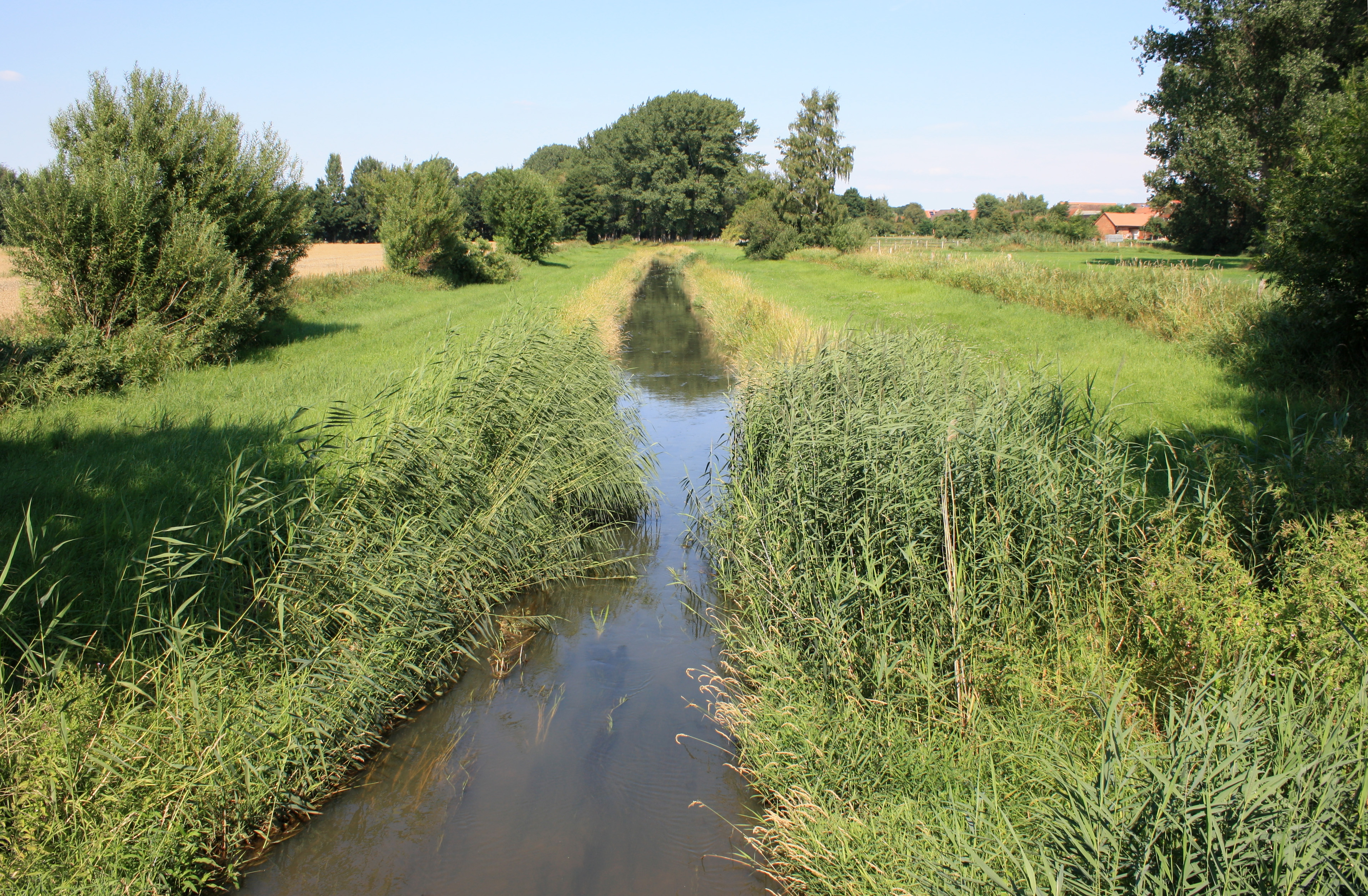 Burgdorfer Aue between Steinwedel und Röddensen